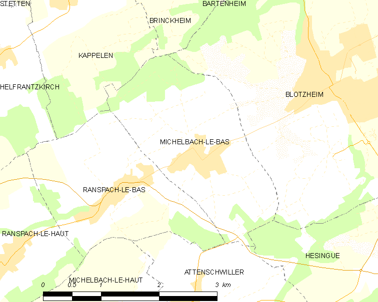 Map of French municipality